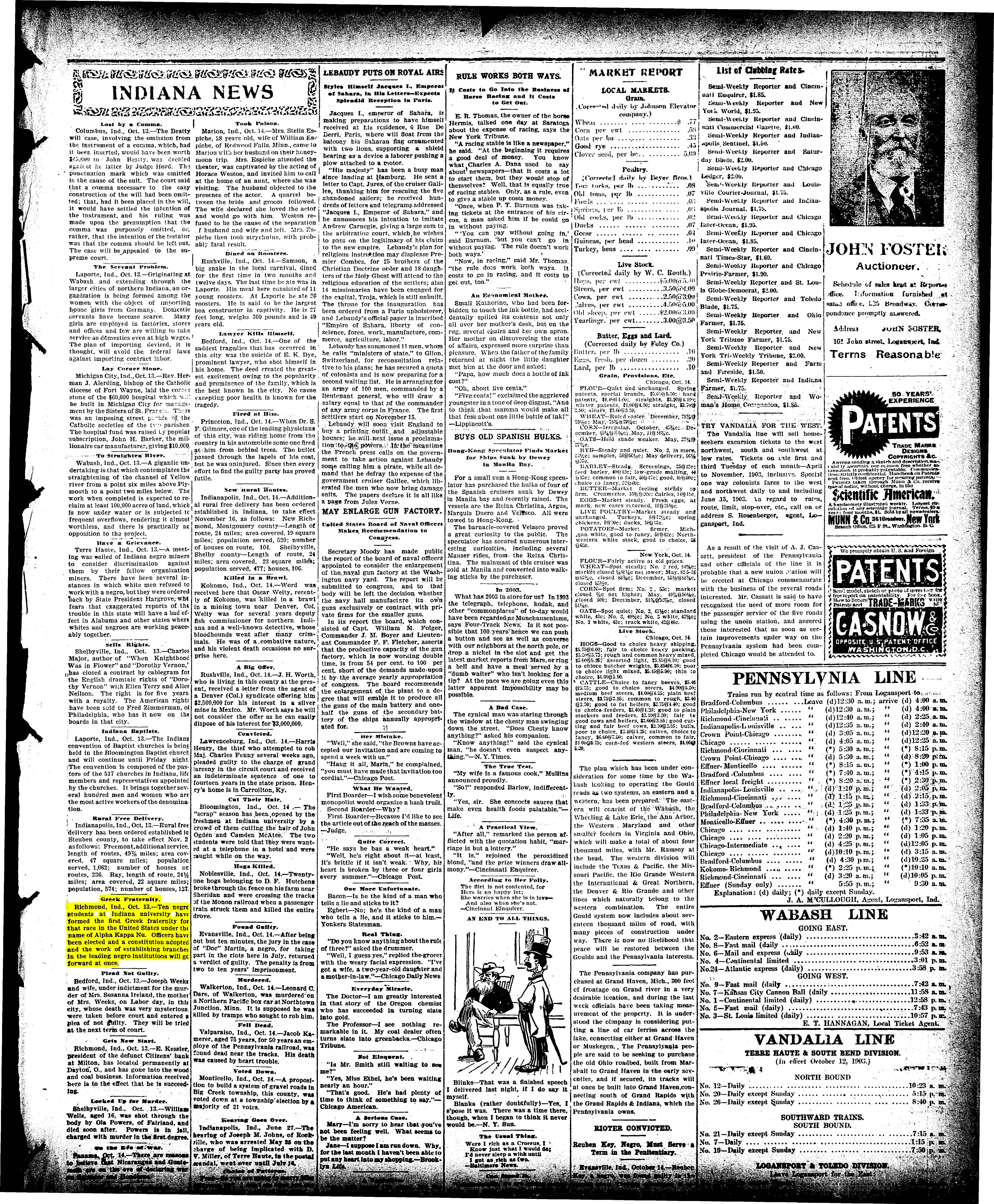 Newspaper Article about formation of the first African American Greek Letter Organization - Alpha Kappa Nu